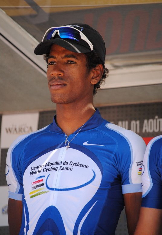 Daniel Teklehaimanot